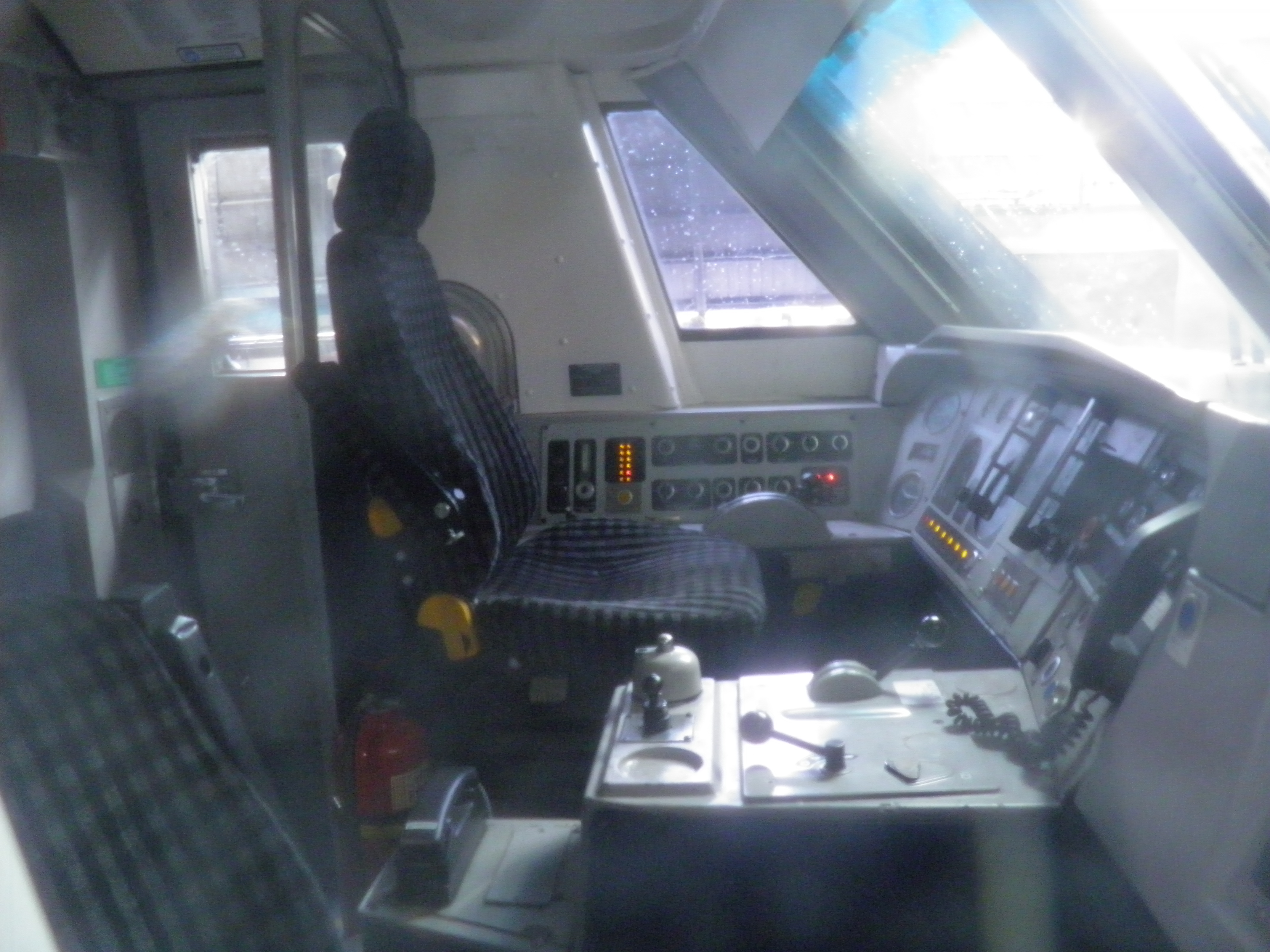 shot through the cab window of 91101